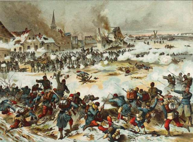 Battle of Bapaume; 3-1-1871, combat for the village Tilloy.